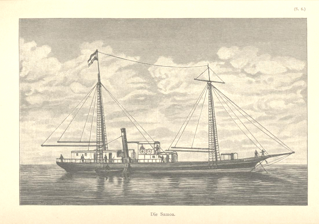 German Steamer Samoa, 1884 - 1885 sketch by Otto Finsch, accessed via the World Digital Library